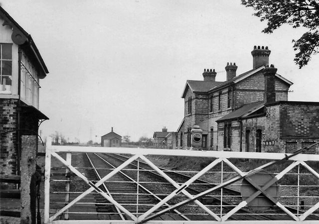 Beckingham Station. Near to Beckingham, Nottinghamshire, Great Britain. View southward, towards Lincoln; Doncaster - Gainsborough - Lincoln - Sleaford - Spalding - March (GN & GE Joint) main line. Station closed to passengers 2/11/59, to goods 19/8/63; probably a private house by 1967. Line still open now,except Spalding - March.